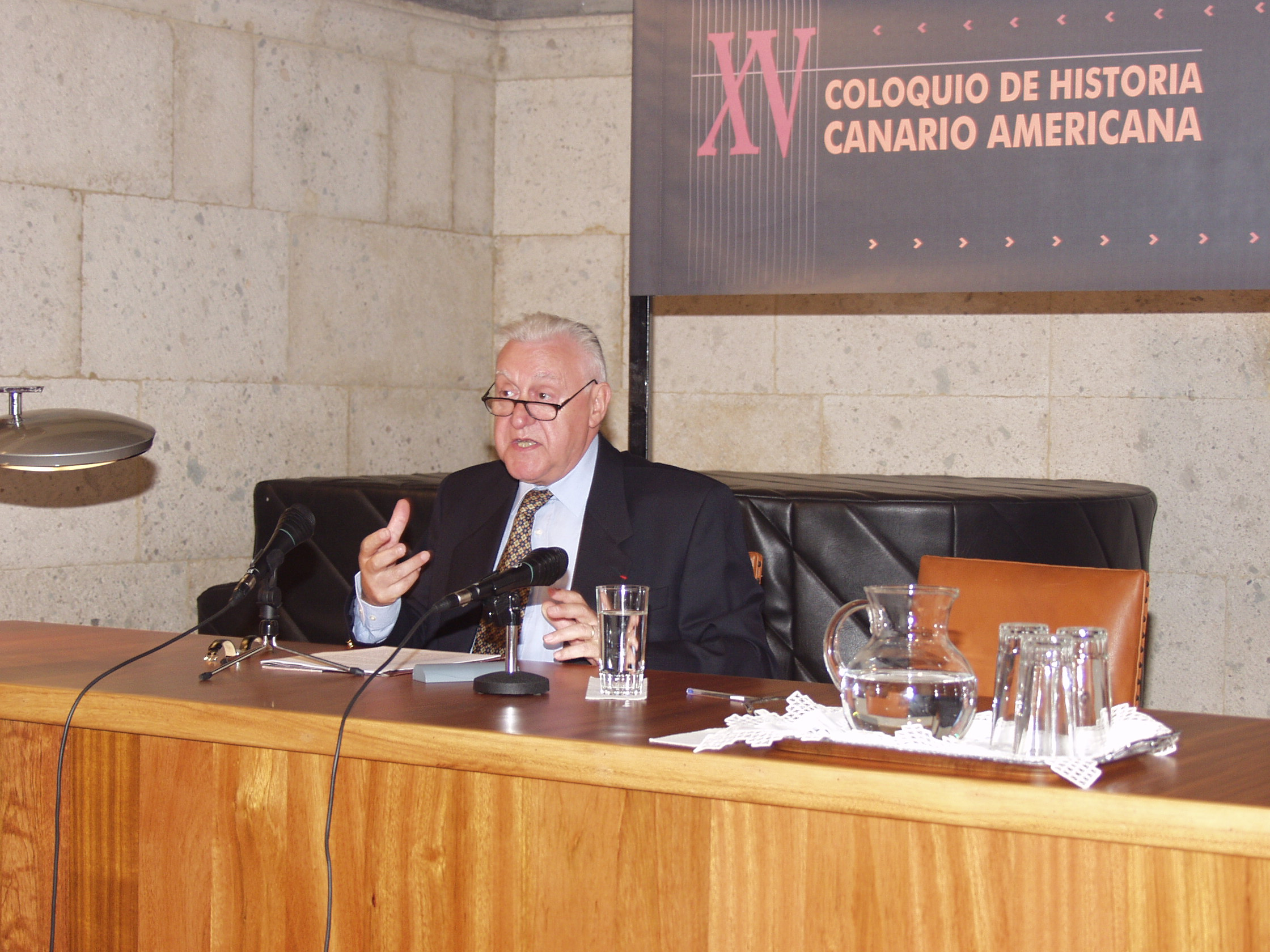 Joseph Pérez, a French historian of Spain